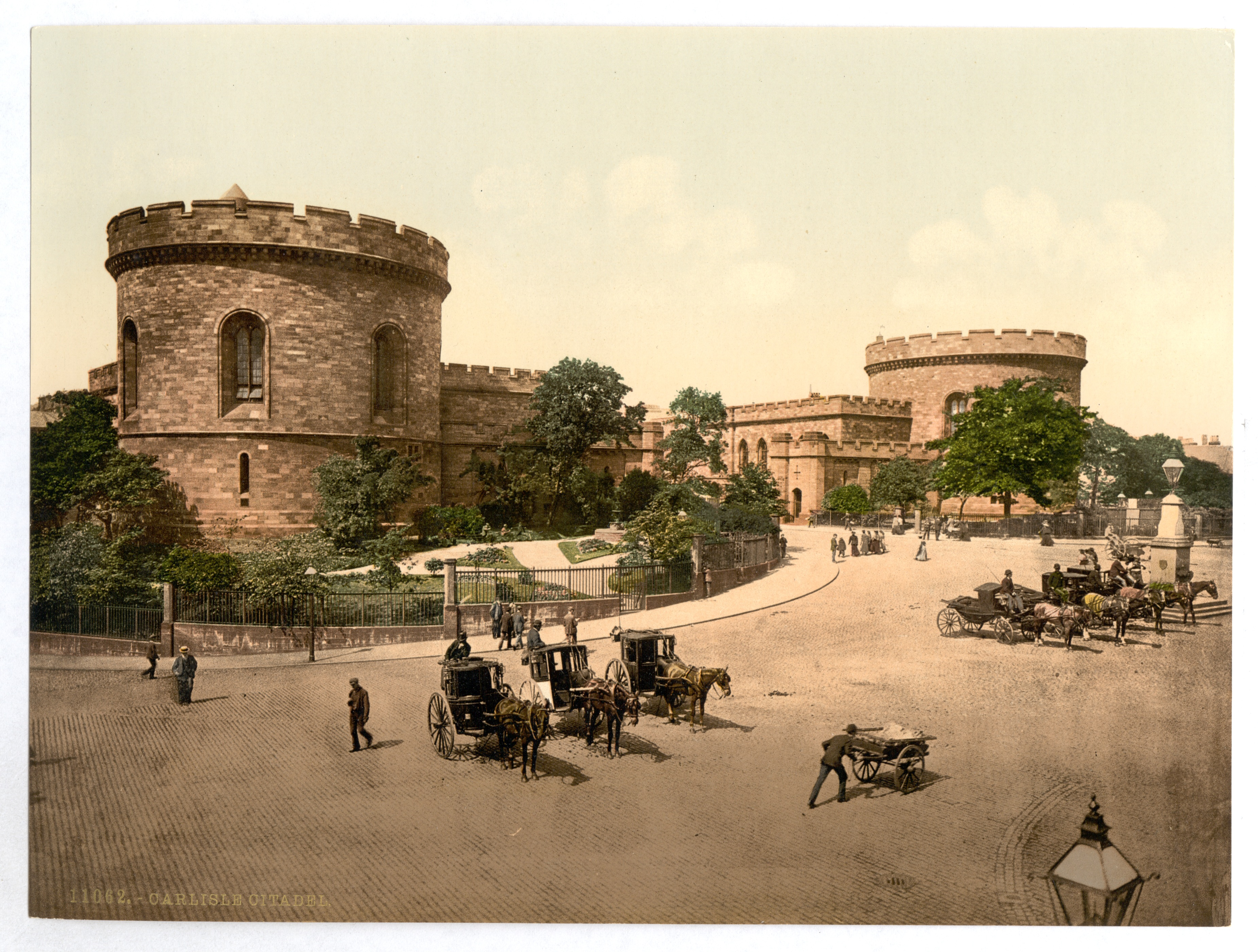 Forms part of: Views of the British Isles, in the Photochrom print collection.; Print no. "11062".; Title from the Detroit Publishing Co., Catalogue J-foreign section, Detroit, Mich. : Detroit Publishing Company, 1905.; More information about the Photochrom Print Collection is available at